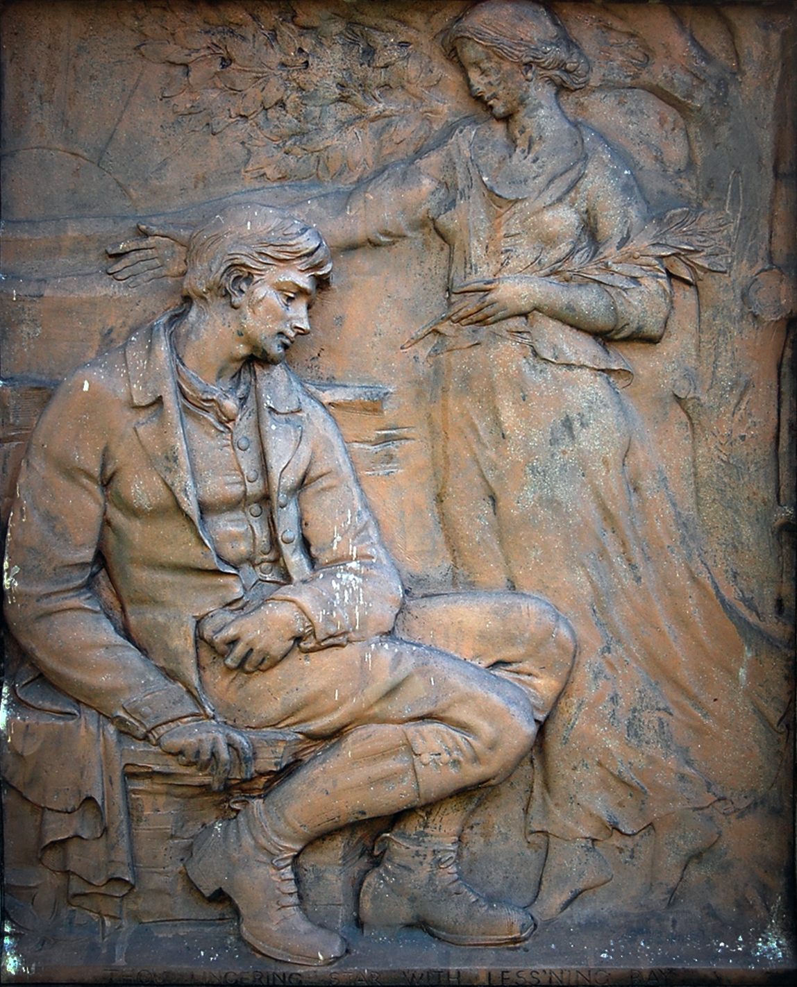 Coila with Robert Burns from a panel on the Burns' statue in Sterling, Scotland.